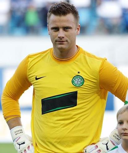 Artur Boruc (born 20 February 1980 in Siedlce) is a Polish footballer.